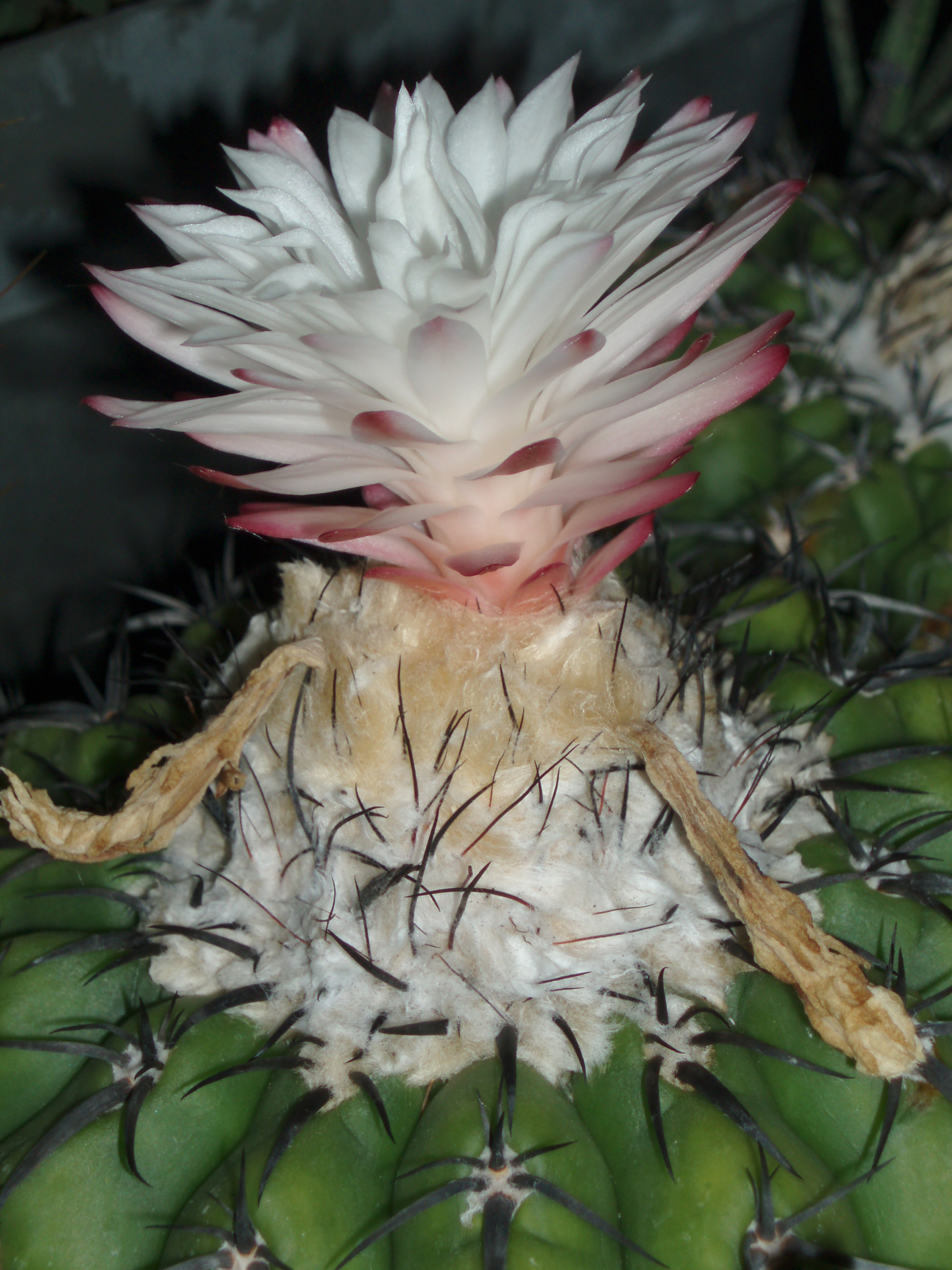 F1 plant from Diamantina, Minas Gerais, Brasil